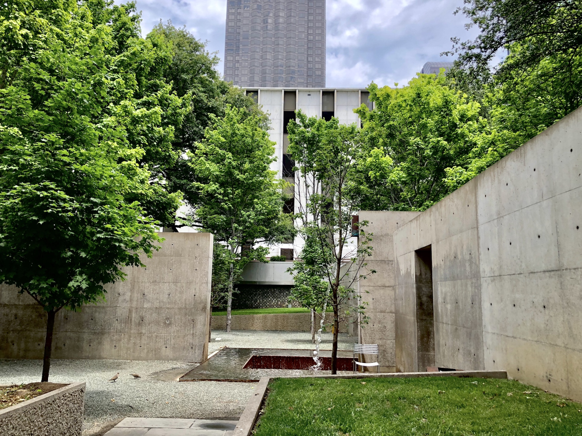 1807 Ross Avenue in Dallas, Texas, designed by architecht George Dahl for Southwestern Life Insurance Company.